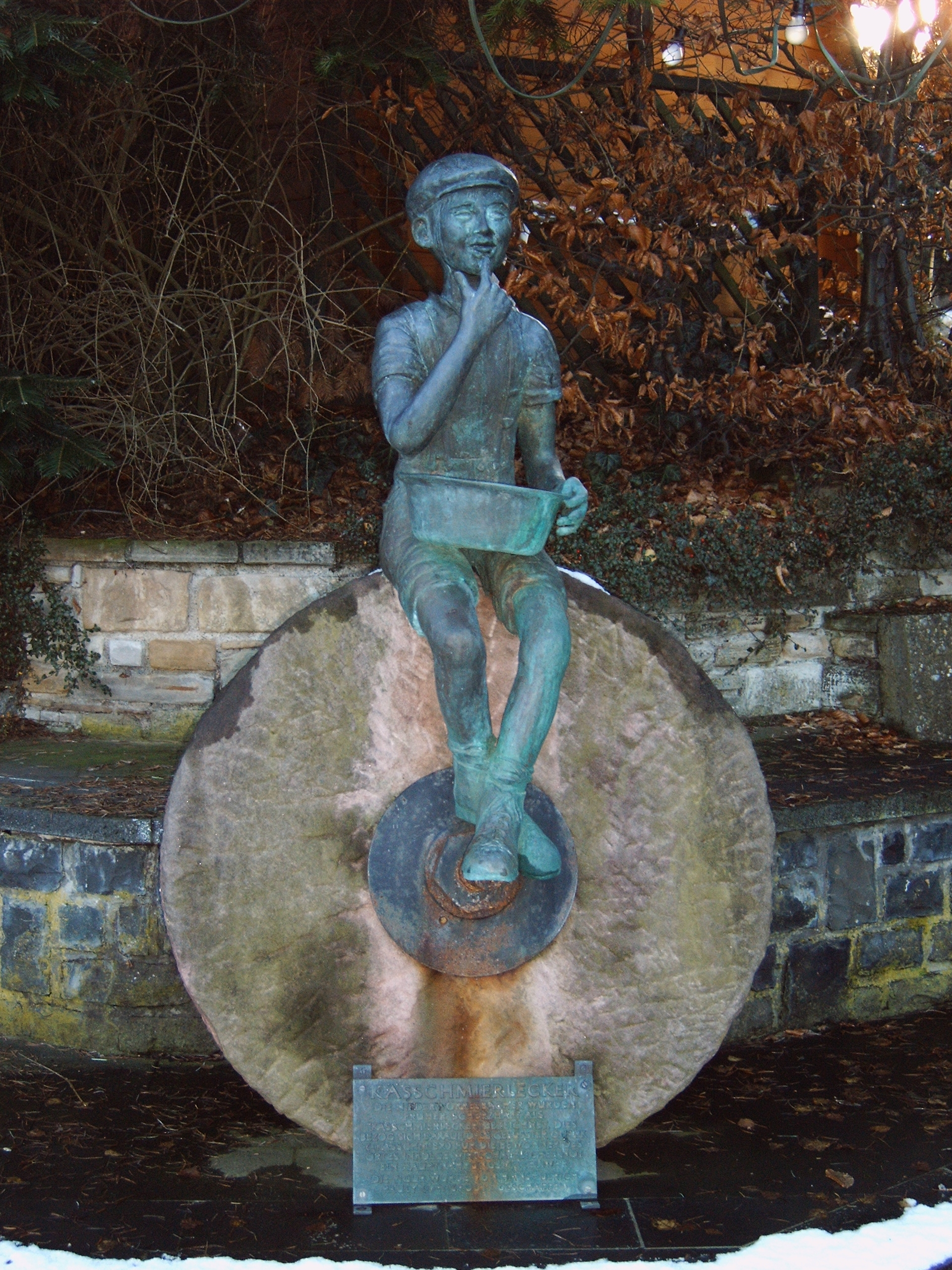 Description: The village's landmark, the "ässchmierlecker (literally "curd eater"), Source: Alexander Dreyer Site views of Niederwörresbach, Germany, Photographed by myself, dec. 2005